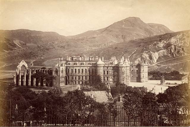 Holyrood Palace from Calton Hill by James Valentine. 1878 or earlier.